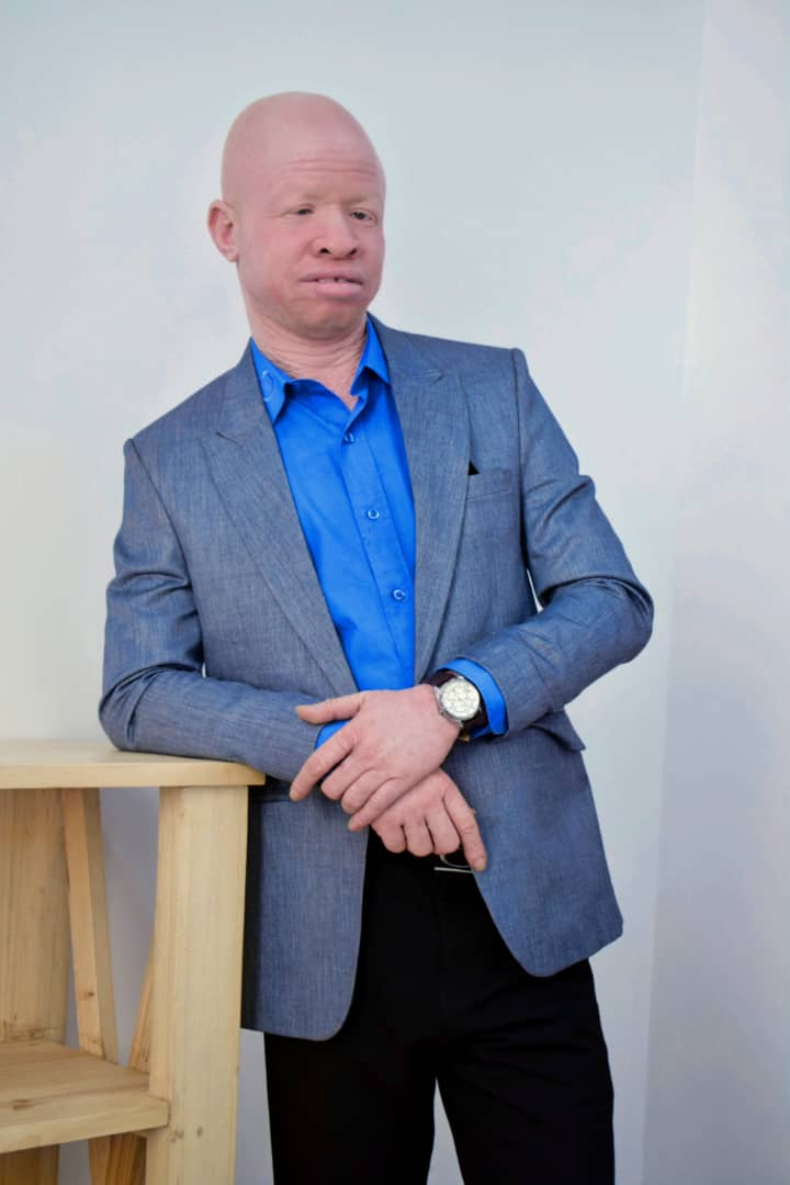 Henry Mdimu a man with Albinism who is the founder of Imetosha Foundation an NGO supporting Albinos in Tanzania on issues of Health awareness, education and Entrepreneurship empowerment for people with Albinism